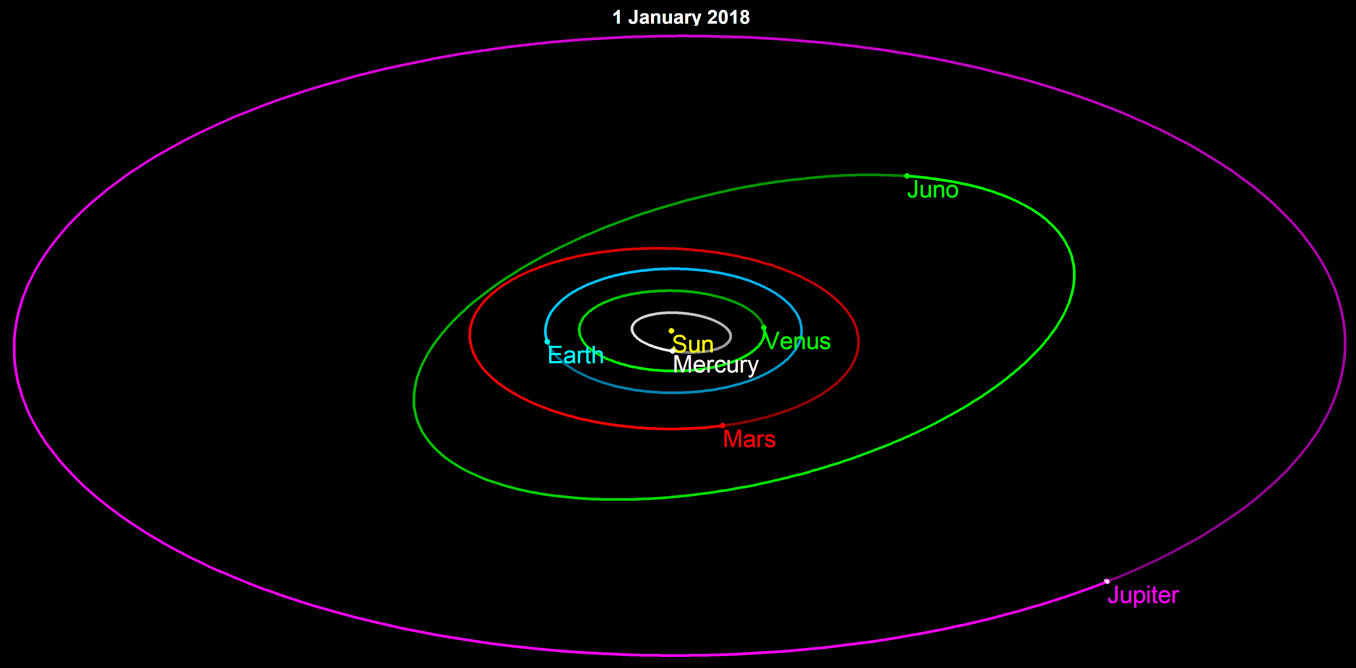 en:3 Juno orbit among solar system inside Jupiter, and positions on 1/1/2018